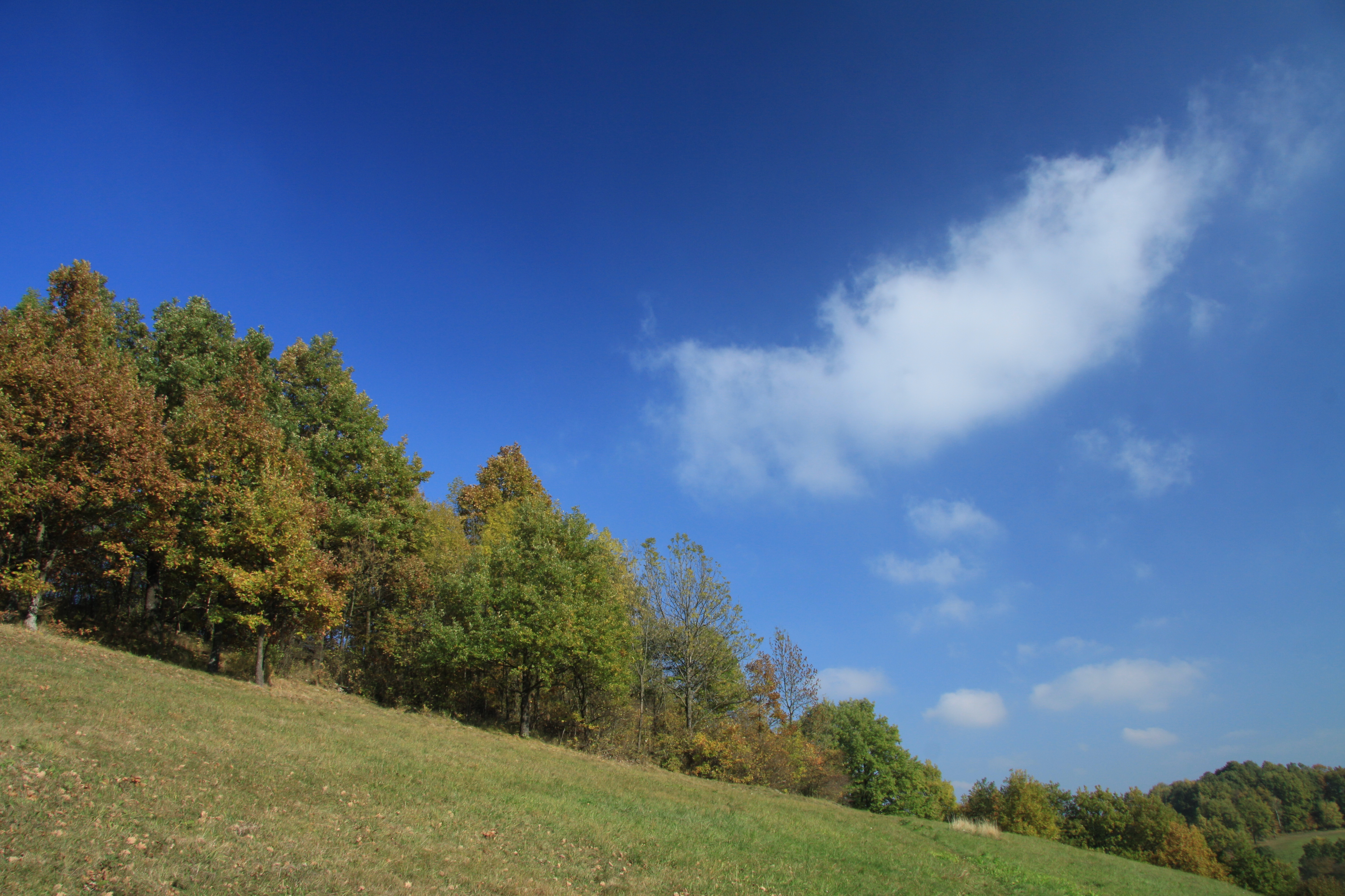 Natural monument Na Stráži on south-eastern border of Brloh village in Český Krumlov District, Czech Republic Project: Chráněná území.